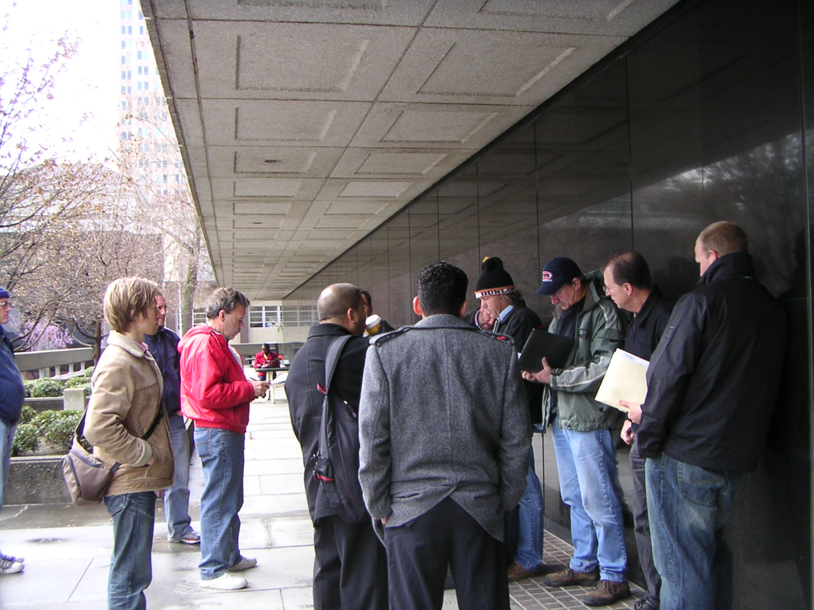 Foreclosure auction 2007